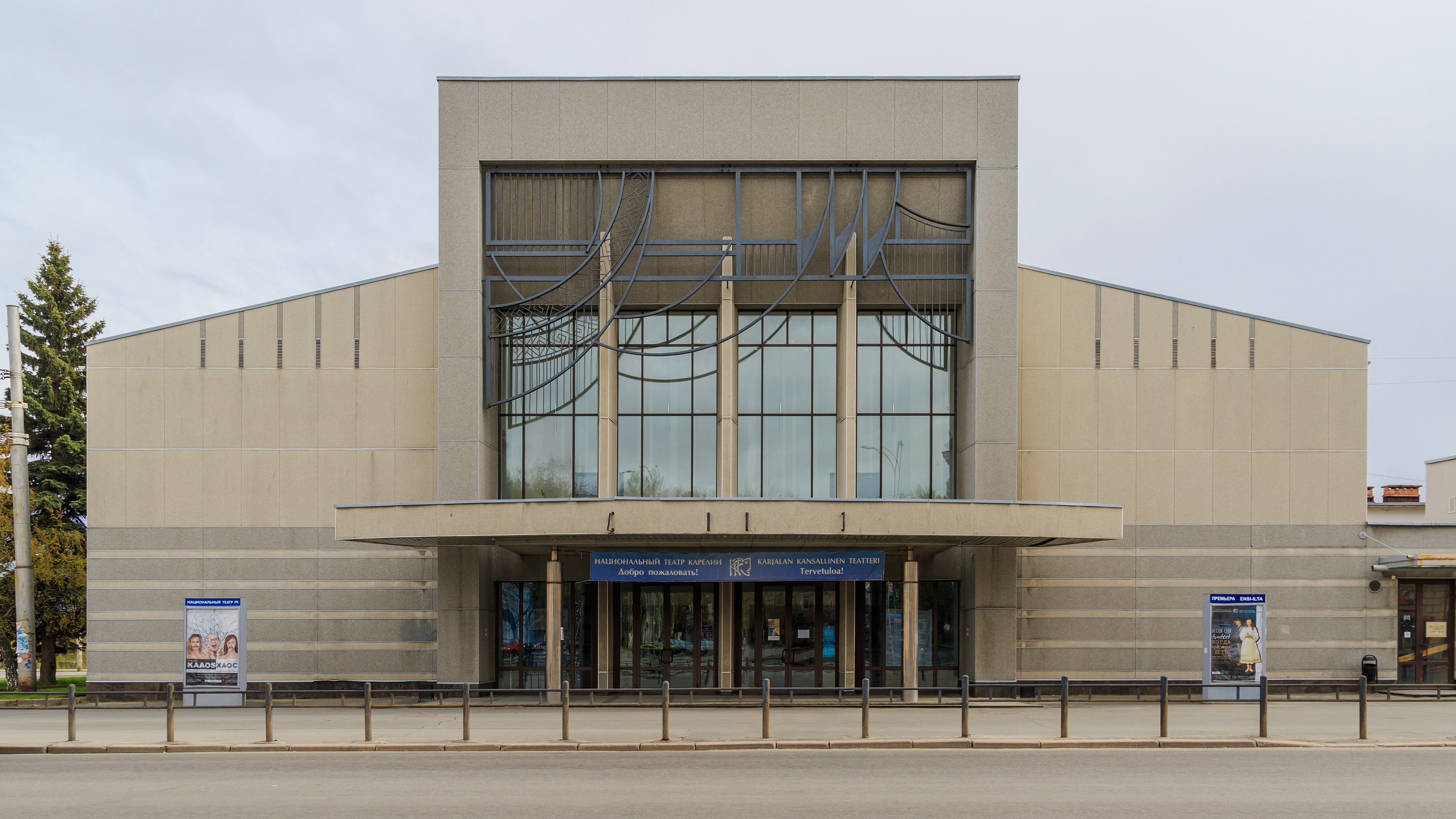 Building of Karelian National Theater in Petrozavodsk, Republic of Karelia (Russia).